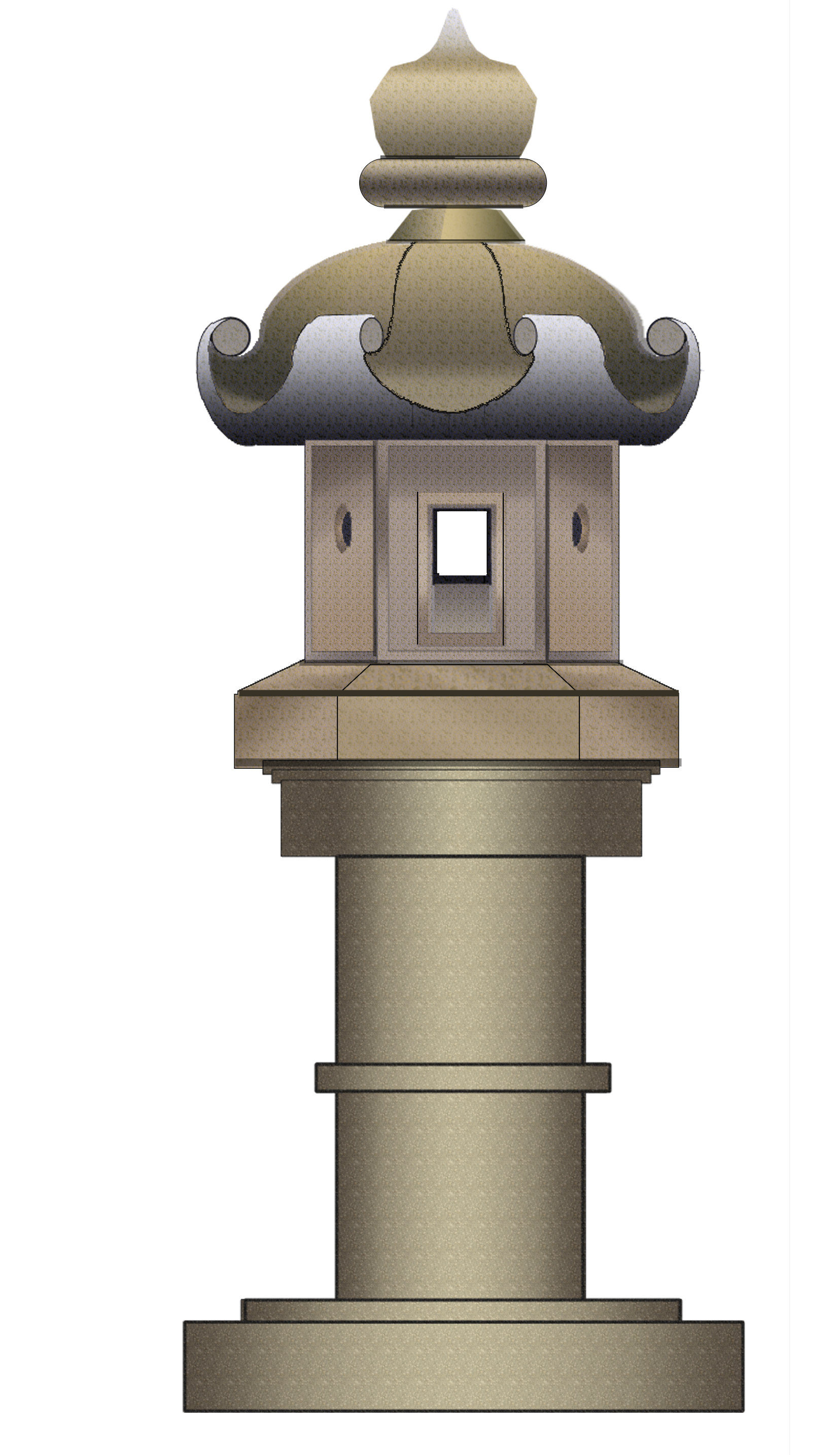 An illustration of a Kasuga-dōrō Japanese stone garden lantern.